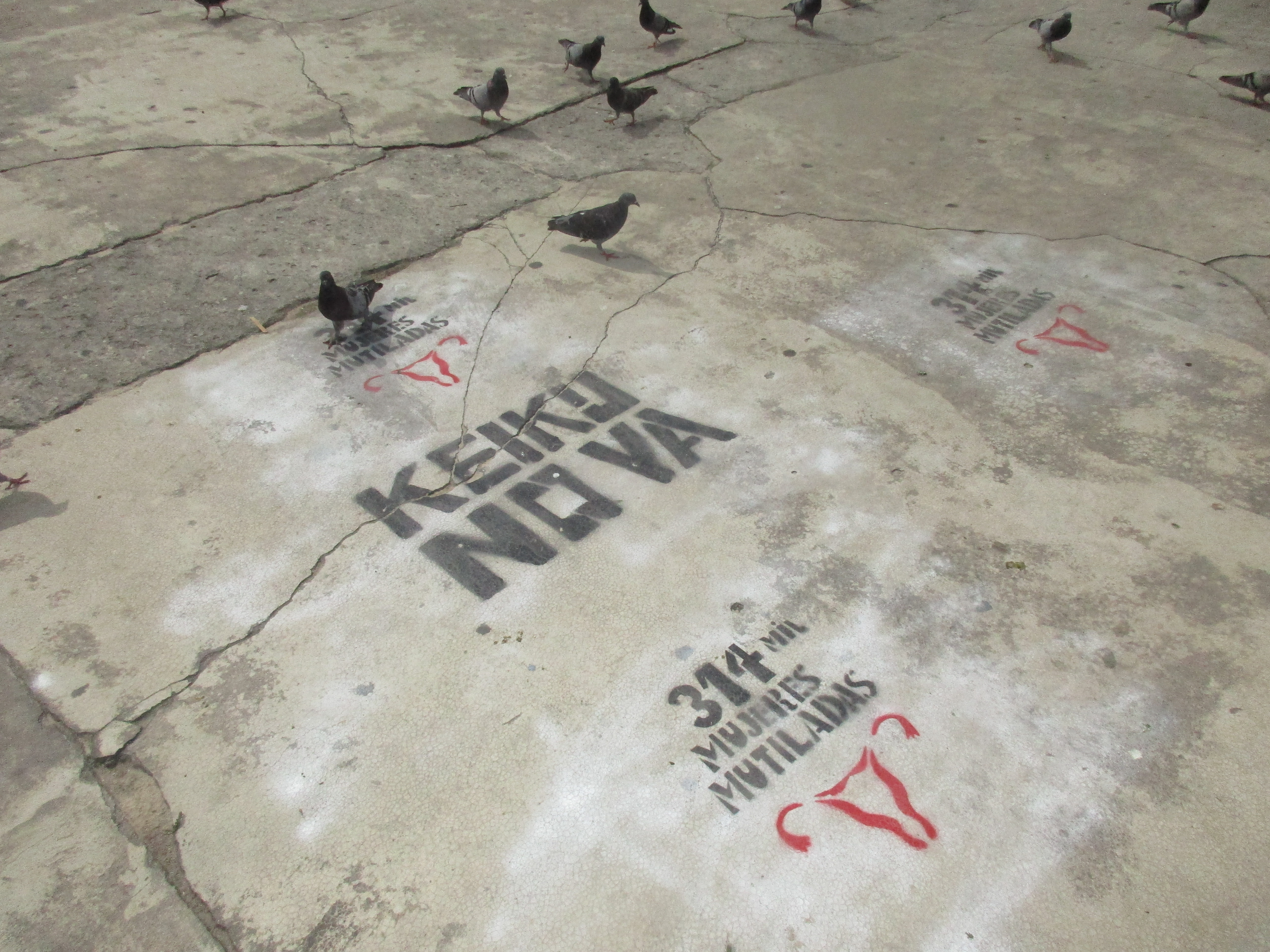 "Keiko no va graffiti, made by Keiko Fujimori's opponents as a reminder of enforced sterilizations during his father's rule